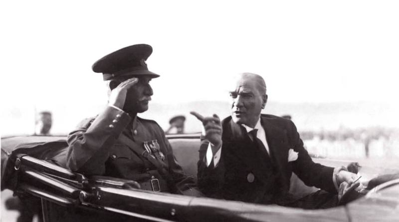 Shah Reza Pahlavi of Iran and President Mustafa Kemal Atatürk of TurkeyTürkçe: İran şahı Rıza Pehlevi ve Türkiye cumhurbaşkanı Mustafa Kemal Atatürk